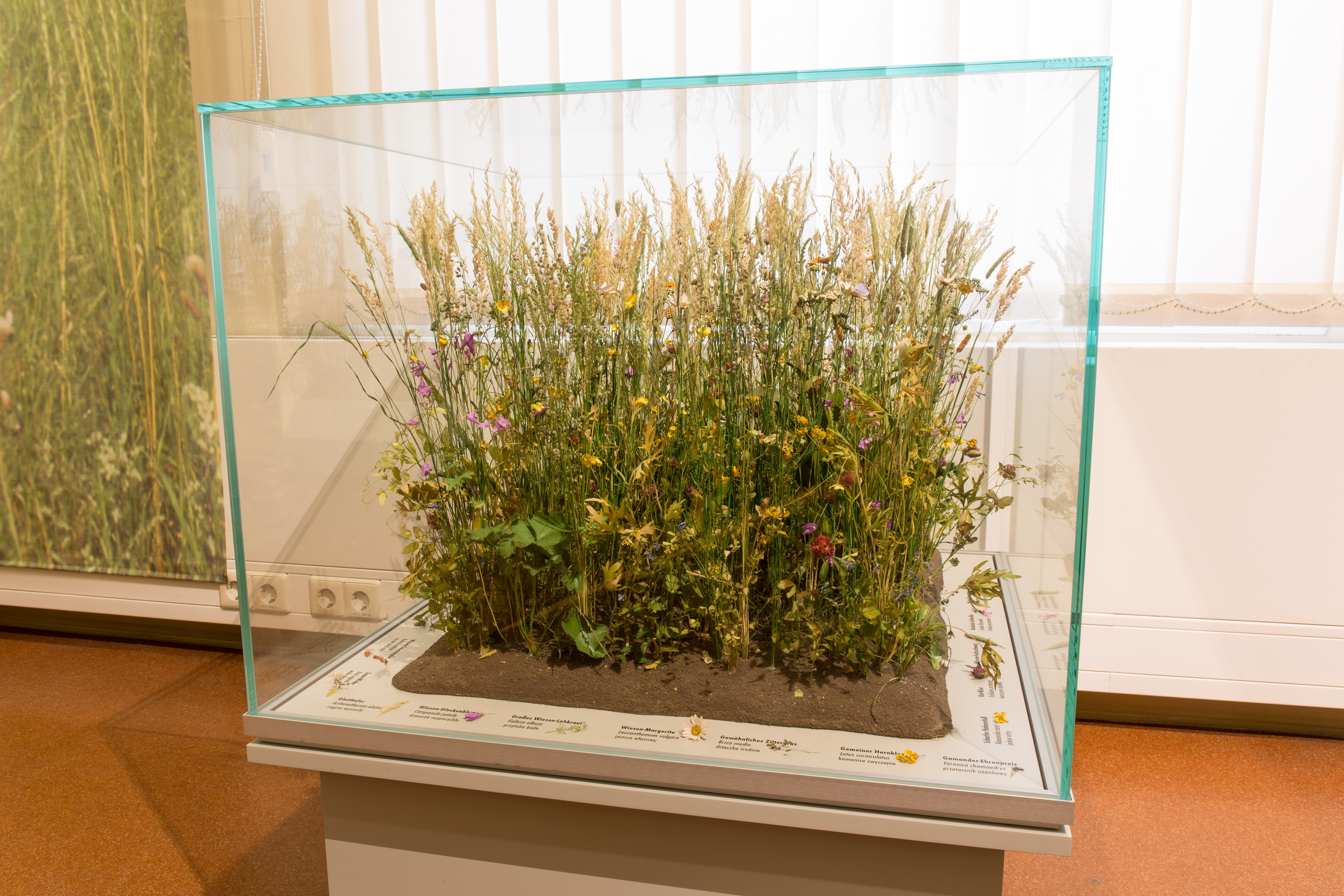 The preparation time of this more inconspicuous looking piece of meadows was roughly two years.